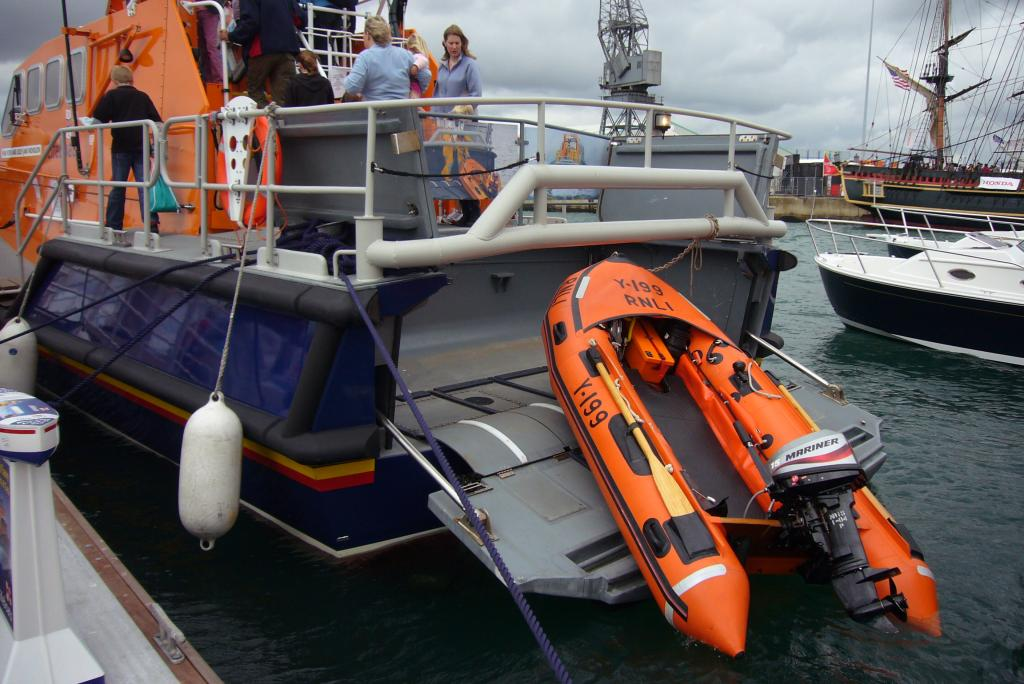 Taken at Southampton Boatshow, this photo shows the back of the Tamar class lifeboat where the Y class boat is stored. Photo taken by Robert Kilpin.